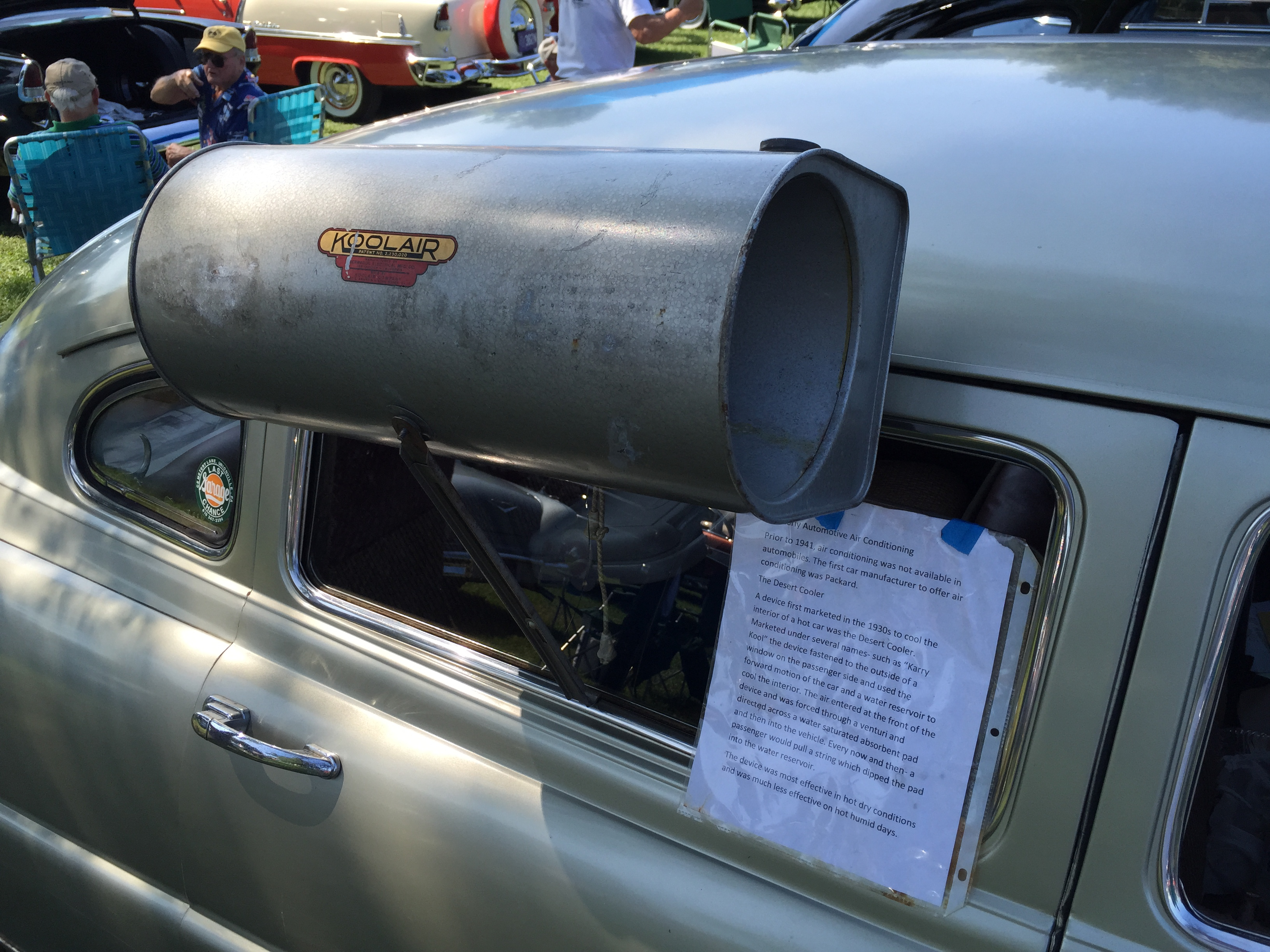 1949 Hudson Commodore 8, a full-sized four-door sedan featuring Hudson's step-down design that allowed it to be lower than contemporary cars, as well as better handling because of a lower center of gravity. It has Hudson's 254.4 cu in (4.2 L) straight 8 engine. This car also has an aftermarket external window mounted "Kool Air" (branded) unit. This is an evaporative cooling system, also known as a "desert cooler" because it worked best in dry conditions. Air is forced through a water saturated pad to cool the car's interior. This design is also known as "swamp cooler" because it only added humidity to the passing air. Picture taken at the 52nd Annual "Das Awkscht Fescht" antique car show in Macungie, Pennsylvania.